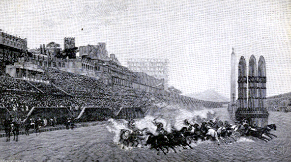 This elementary history of Rome presents short stories of the great heroes, mythical and historical, from Aeneas and the founding of Rome to the fall of the western empire. Around the famous characters of Rome are graphically grouped the great events with which their names will forever stand connected. Vivid descriptions bring to life the events narrated, making history attractive to the young, and awakening their enthusiasm for further reading and study.